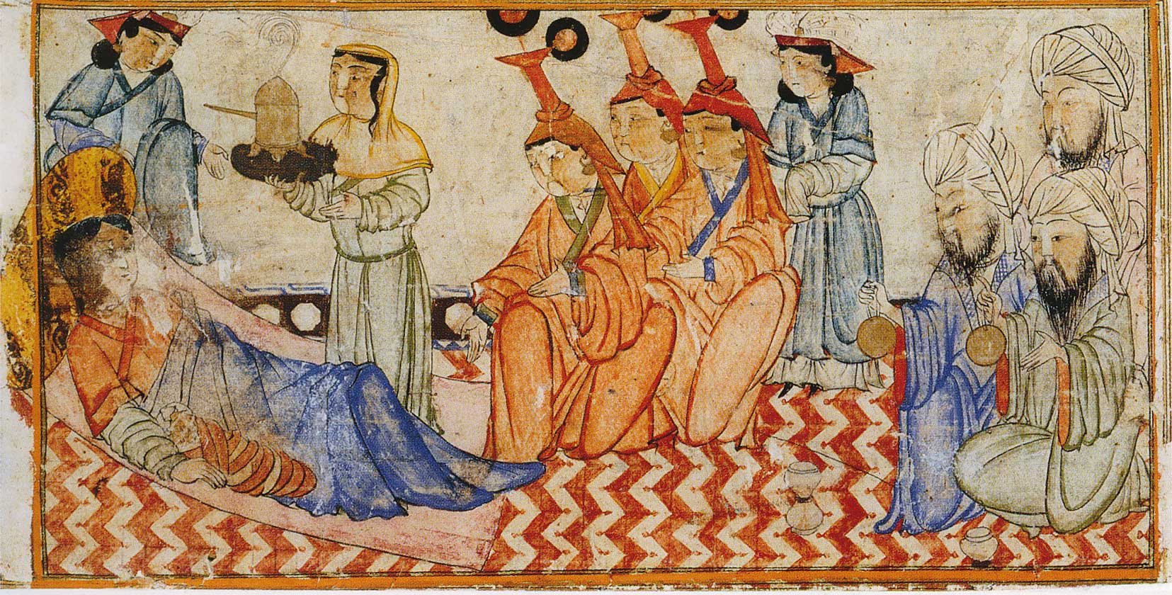 Birth of a prince. Illustration of Rashid-ad-Din's Gami' at-tawarih. Tabriz (?), 1st quarter of 14th century. Water colours on paper. Original size: 12.7 cm x 25 cm. Staatsbibliothek Berlin, Orientabteilung, Diez A fol. 70, p. 8 no. 2. Note the astrologists with the astrolabs.